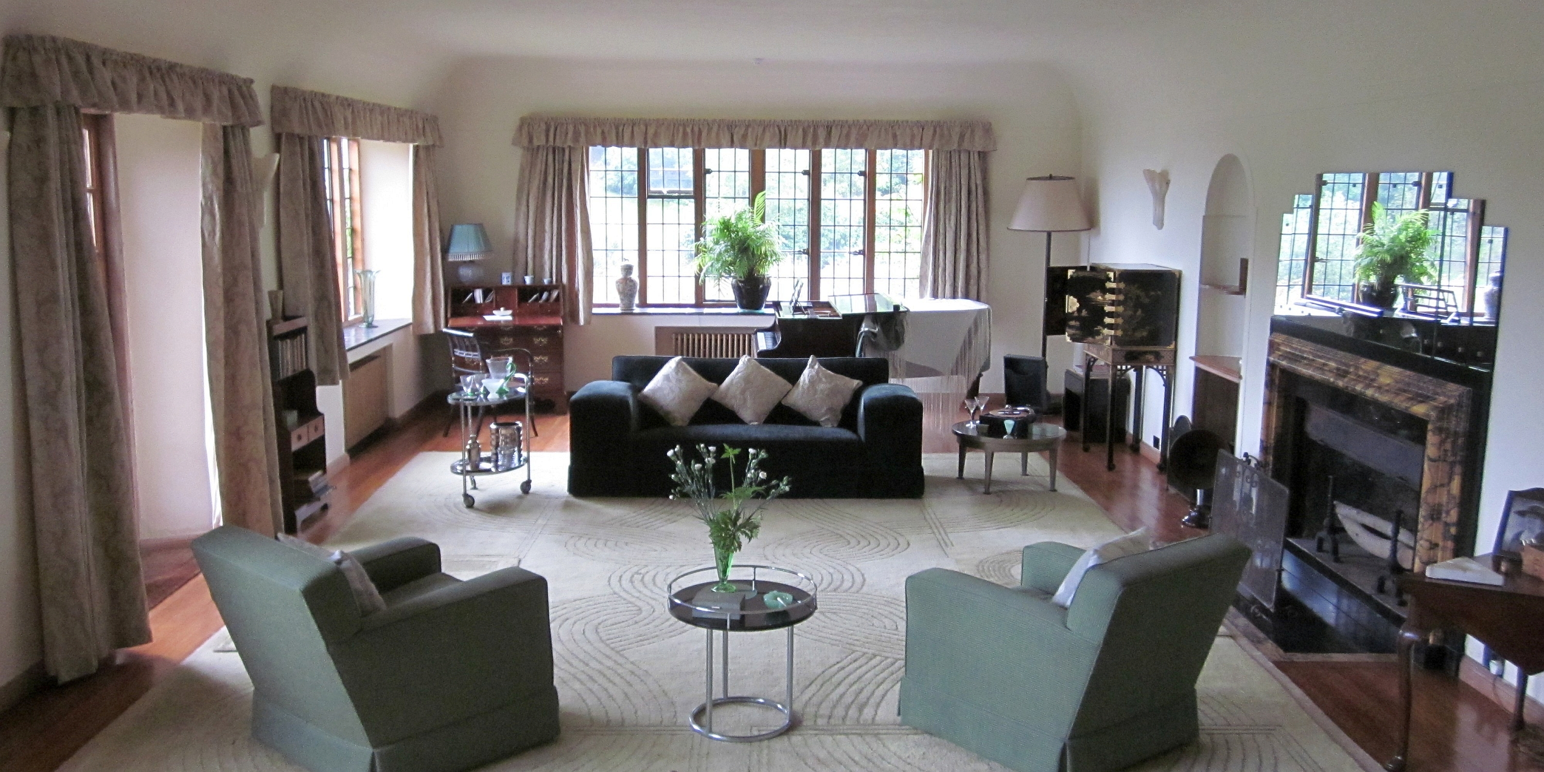 Coleton Fishacre House and Garden in Devon UK